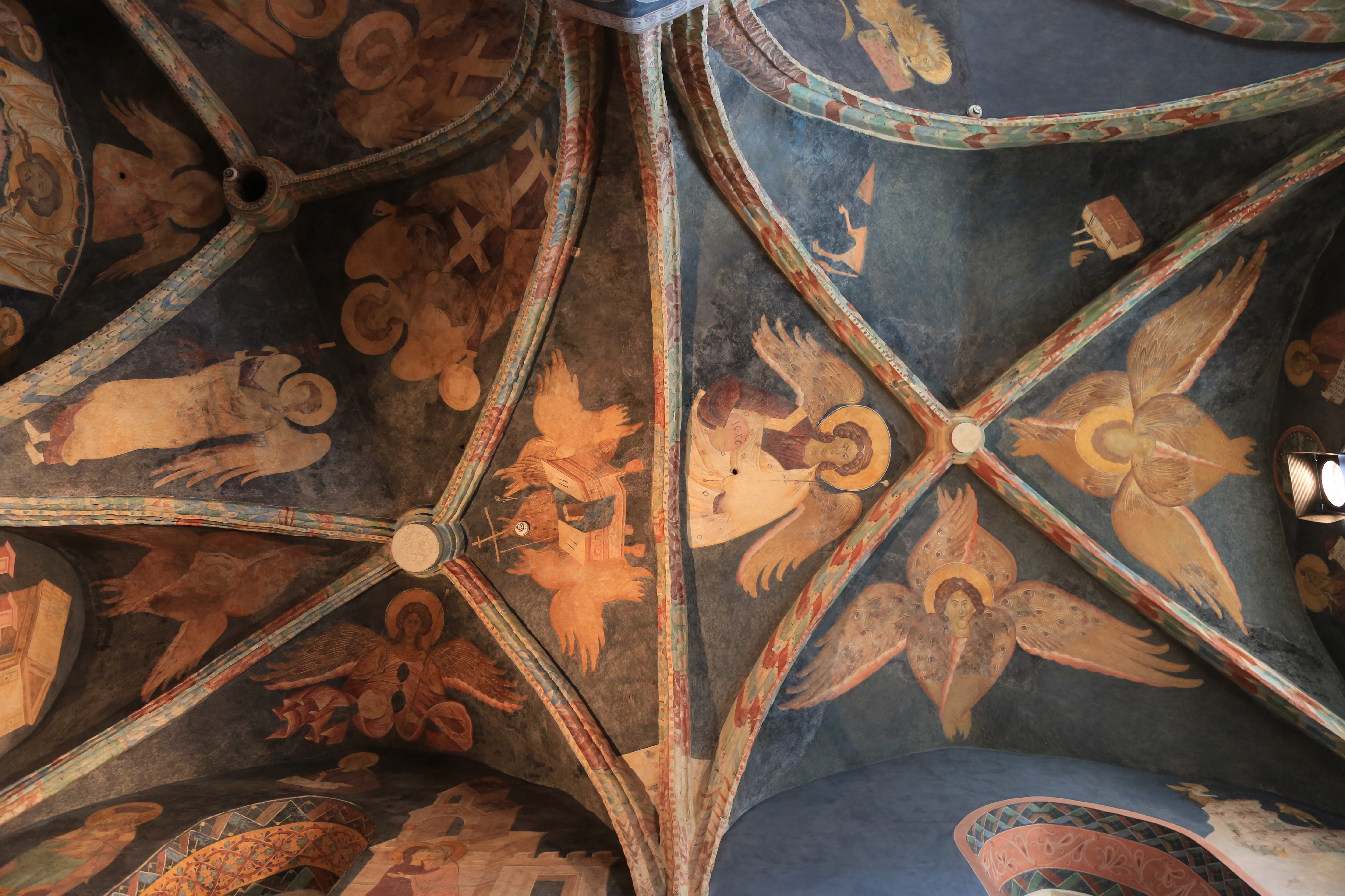 Frescos on the ceiling of the nave in Trinity Chapel in Lublin